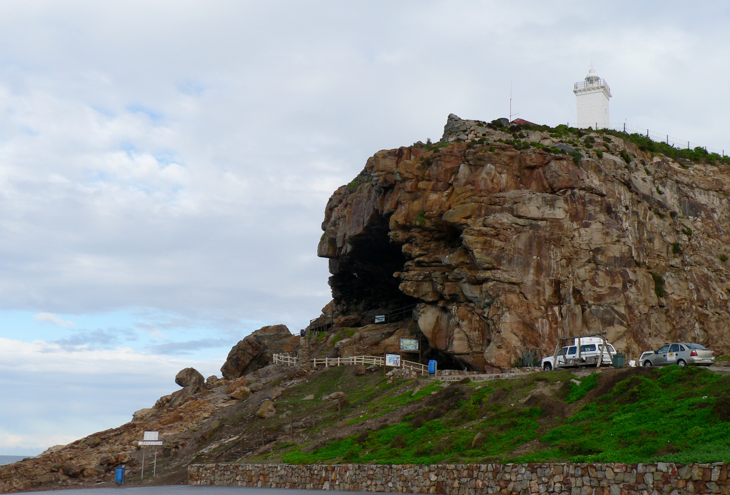 This media shows a South African Protected Site with SAHRA file reference 0000000000.